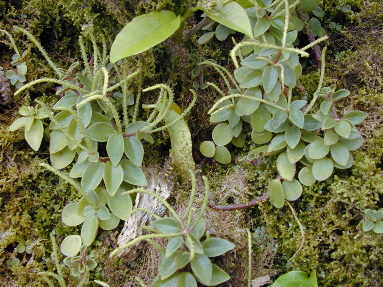 Peperomia cookiana (habit fruits). Location: Maui, Waihee Ridge Trail